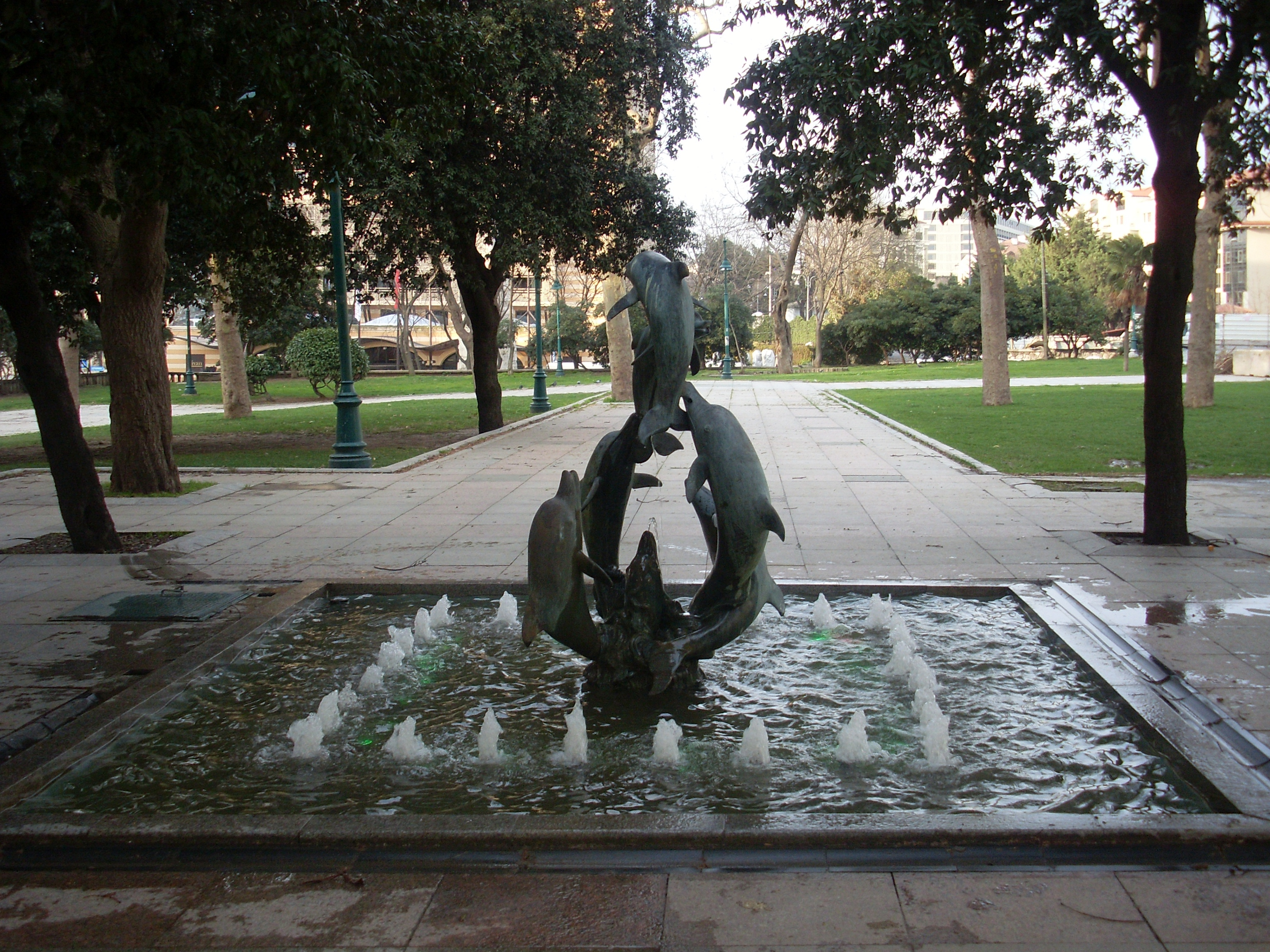 İstanbul - Taksim Gezi Park - Mart 2013 - r7